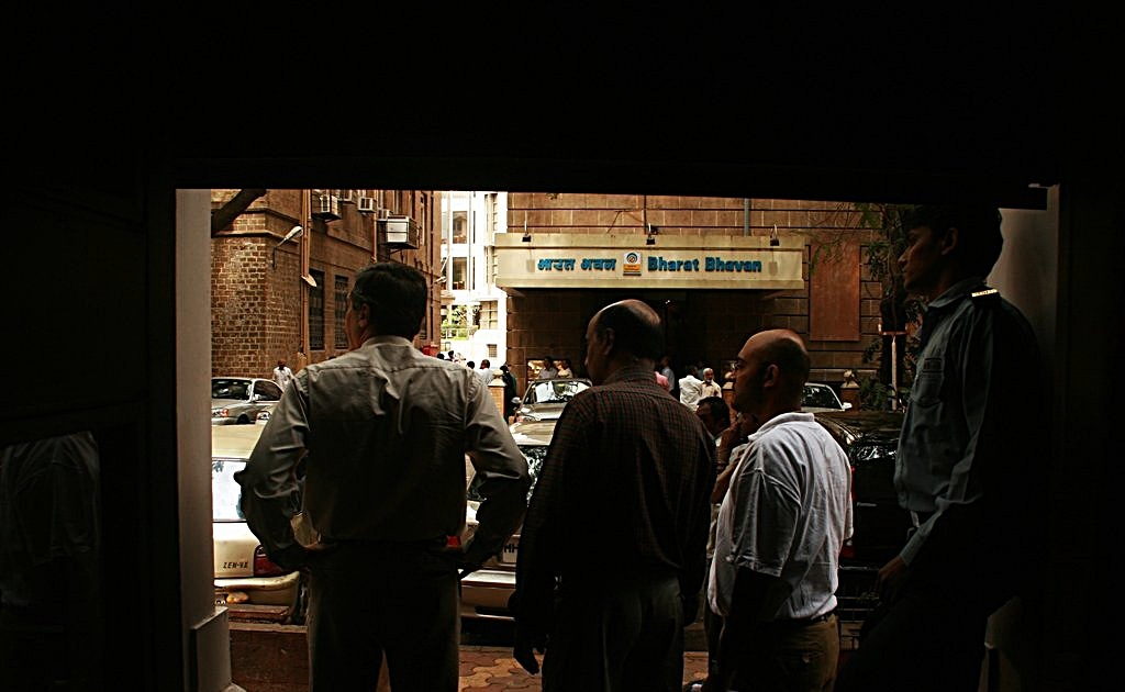 Office goers at Ballard Estate panic at the rumours of firing at the CST (Victoria Terminus) which happens to be three minutes away from the estate. Most of the offices closed early today and the employees were asked to rush home. The shutters were pulled down half way after the rumours did their rounds. I was inside the office. Couldnt let my daredevil Ma go all the way by herself :)